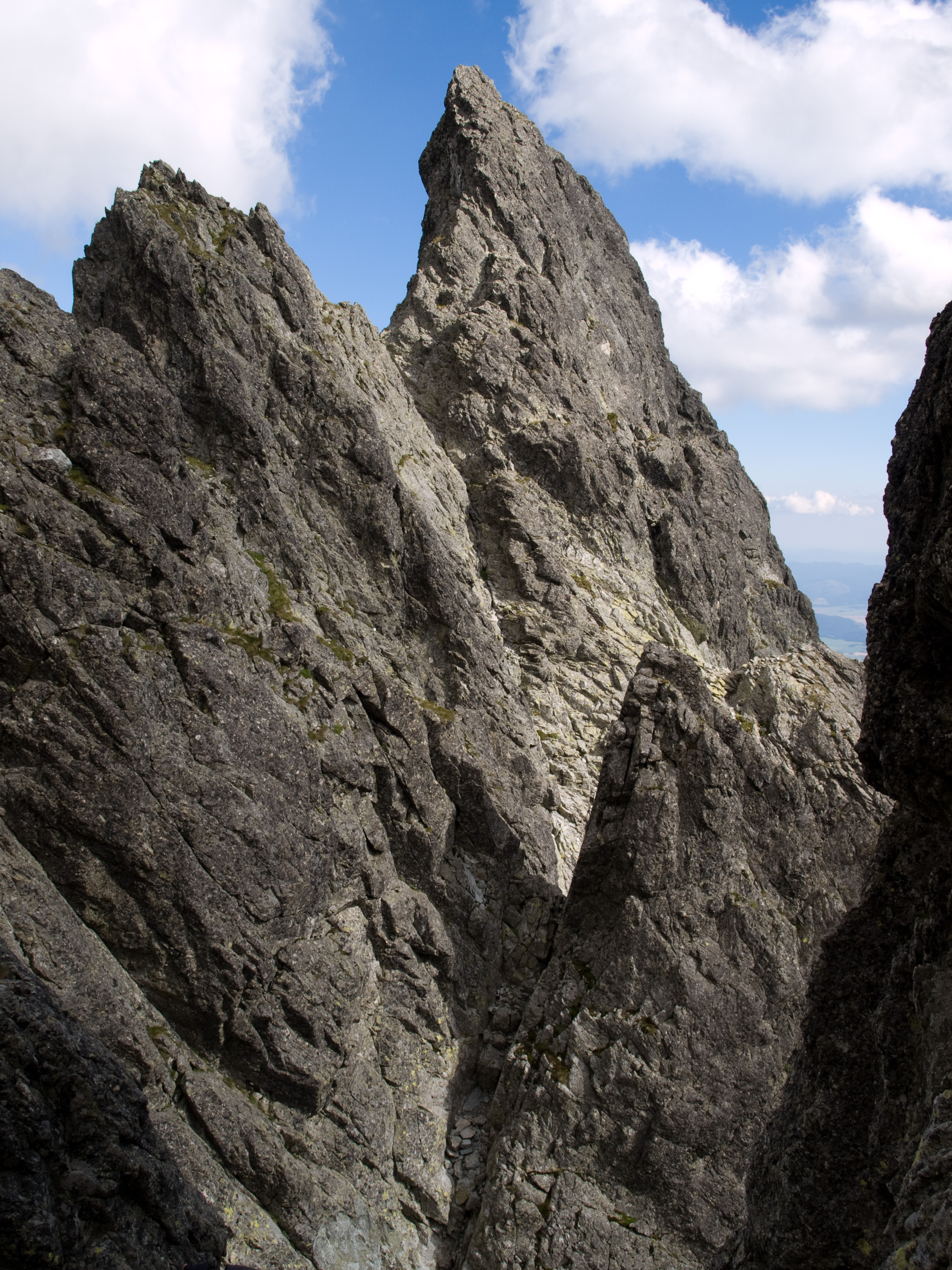 Rohatá veža